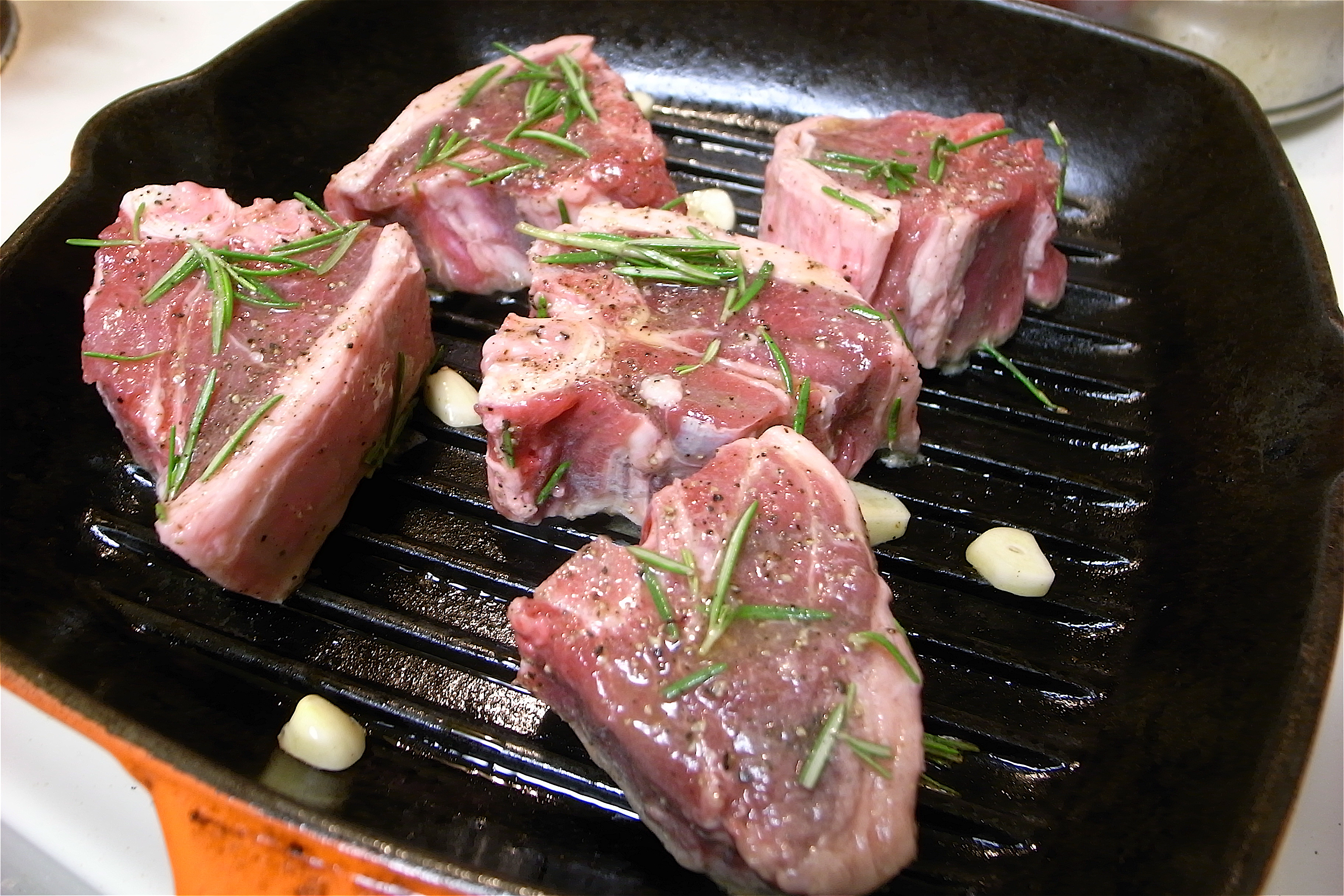 Grilled Lamb Loin Chops